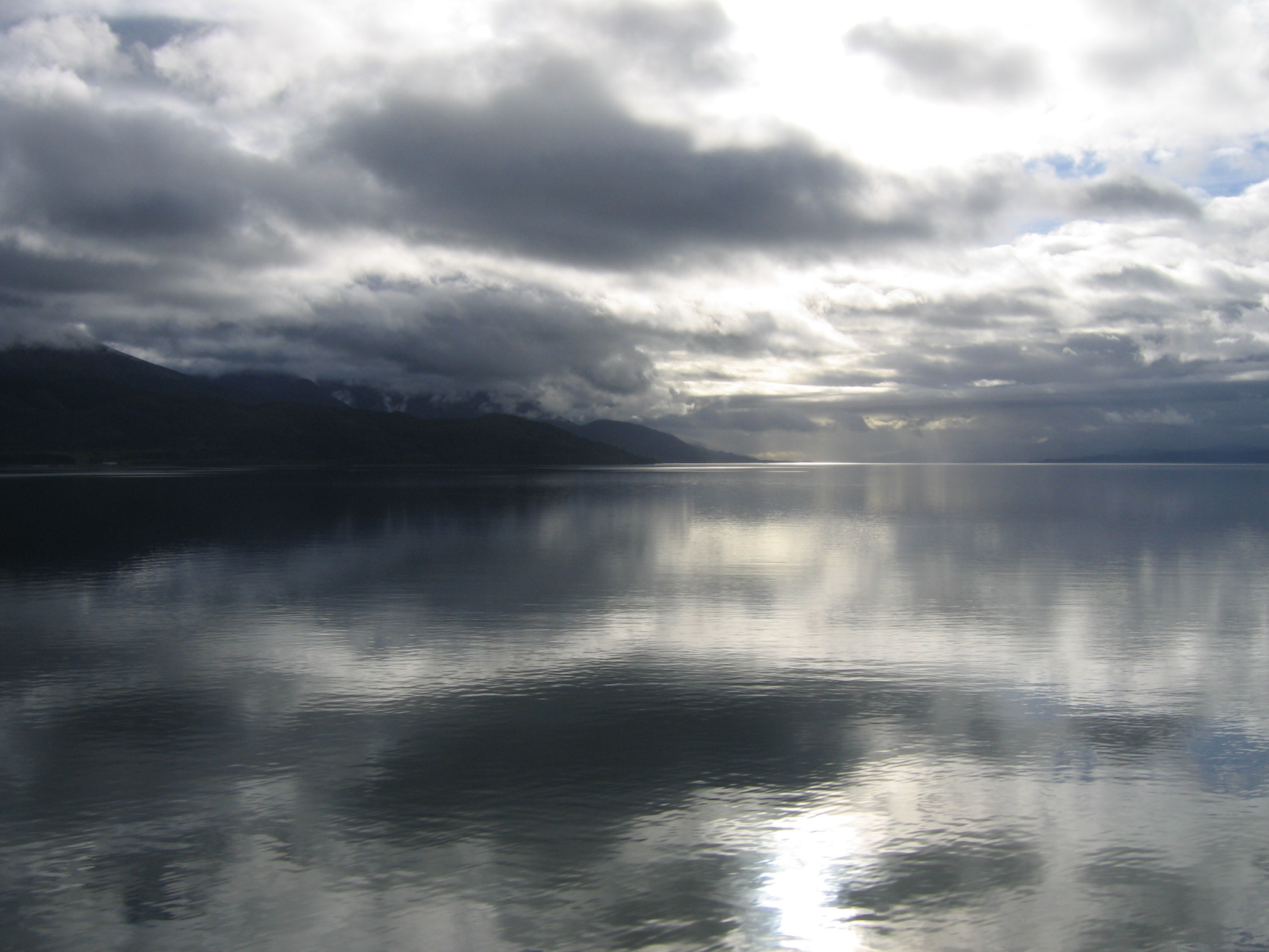 Author: Ute D. Mayer